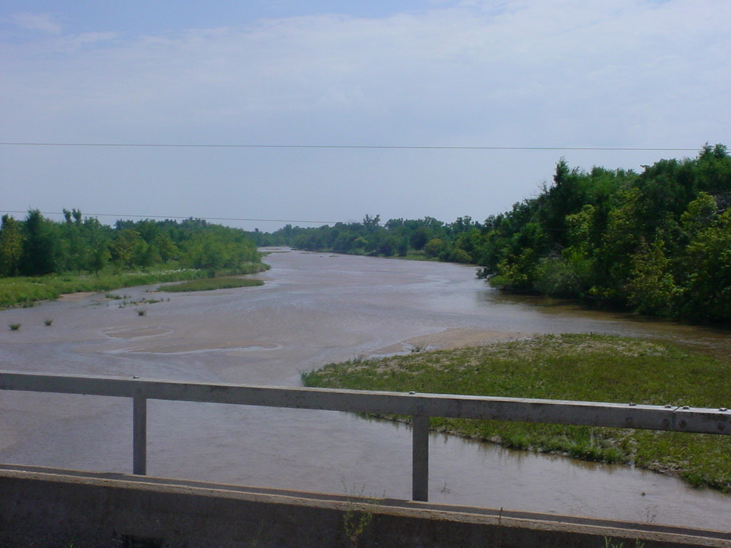 The Ninnescah River as viewed to the south from SE 60th Street, south of Murdock, Kansas.